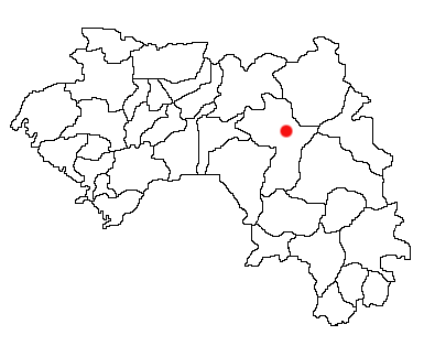 Kouroussa, Guinea Location Map; created with the GIMP. Made by User:Acntx.